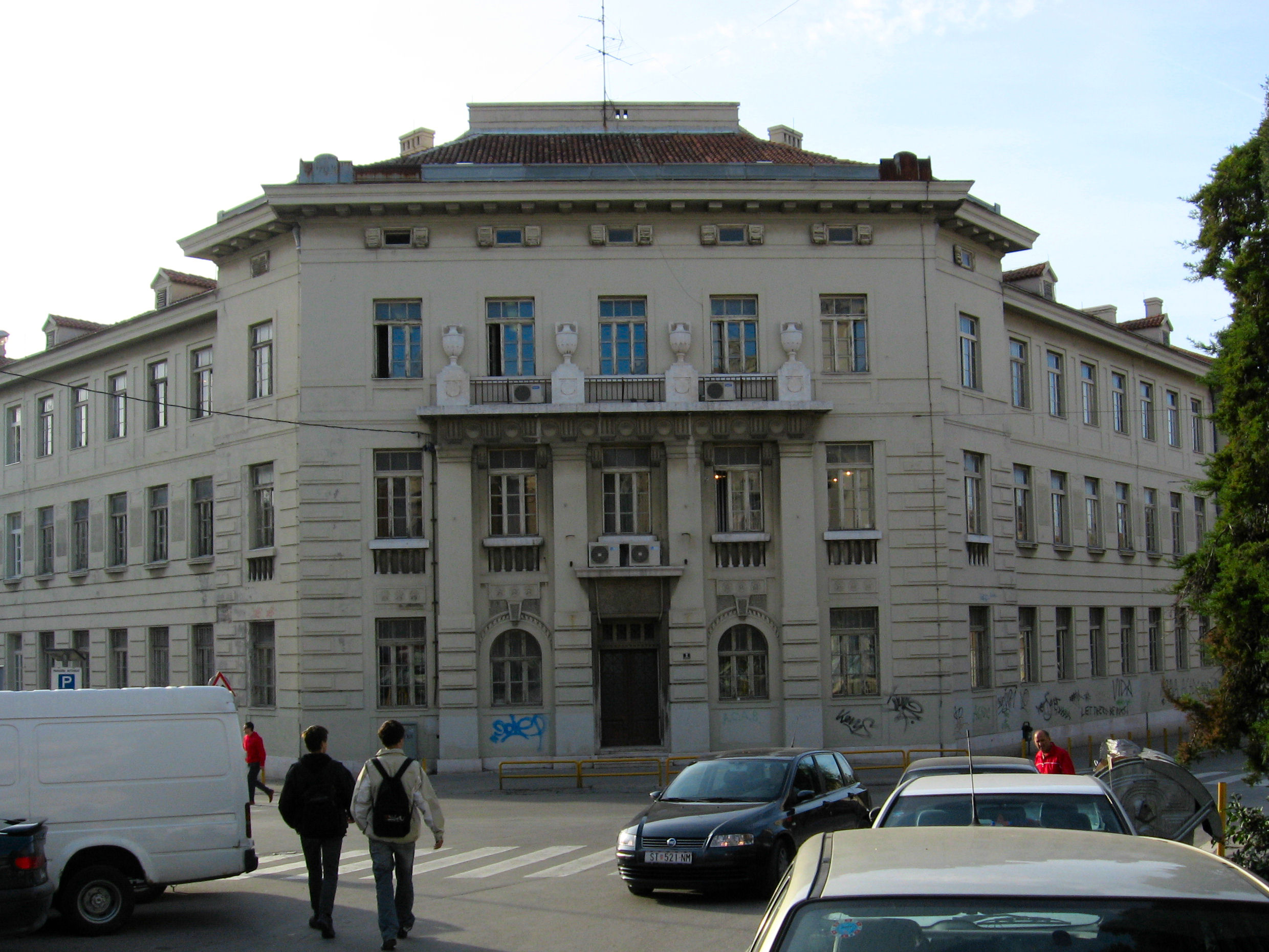 4. and 5. High school in Split